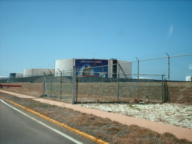 Access road to Amuay refinery (Gate 1) in Judibana, Falcón State, Venezuela. Tank picture of Hugo Chávez reads "Of course we can!" (in Spanish).